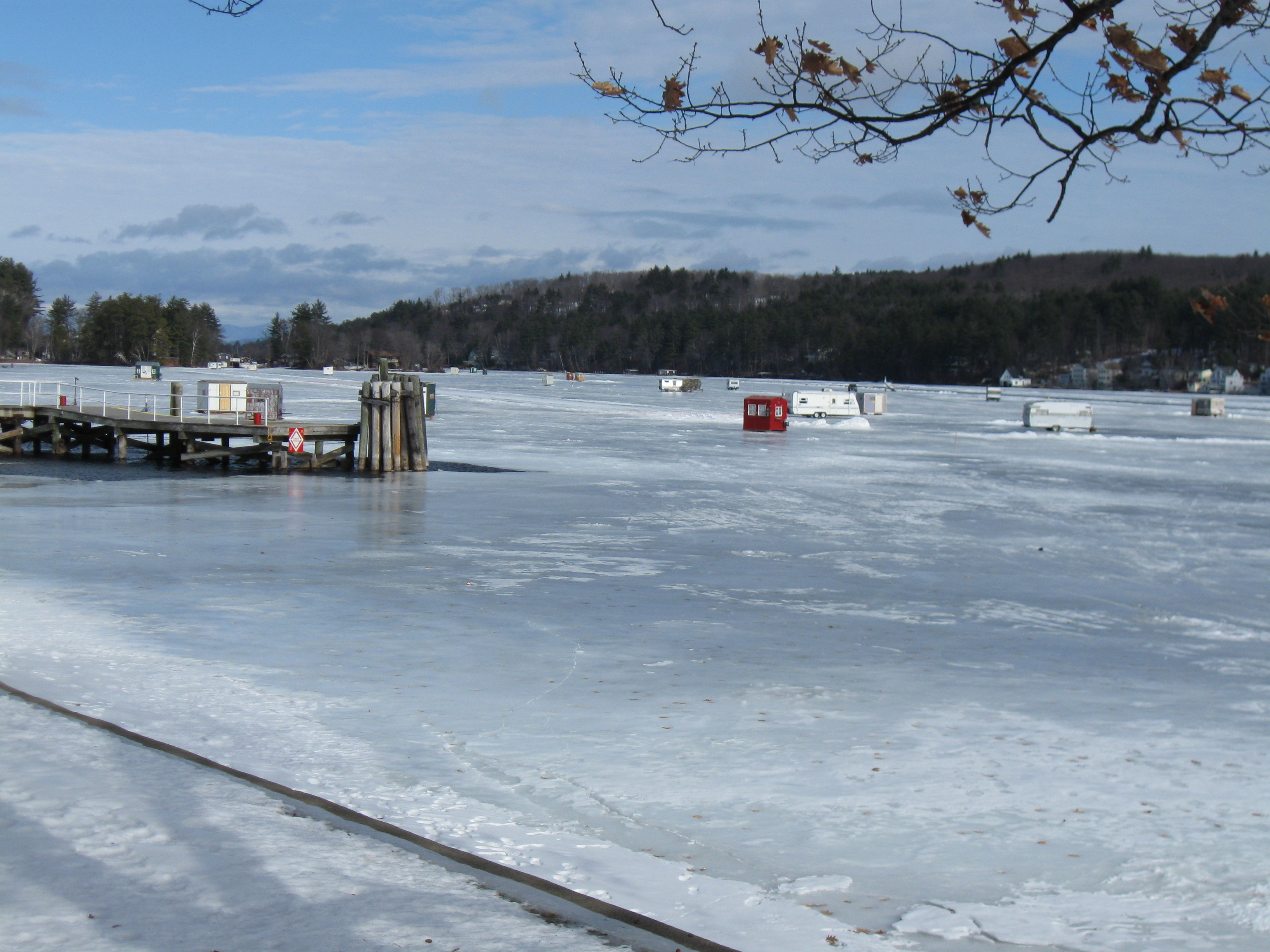 Ice houses on Alton Bay in Lake Winnipesaukee, Alton, New Hampshire. Photo by Ken Gallager, February 15, 2010.